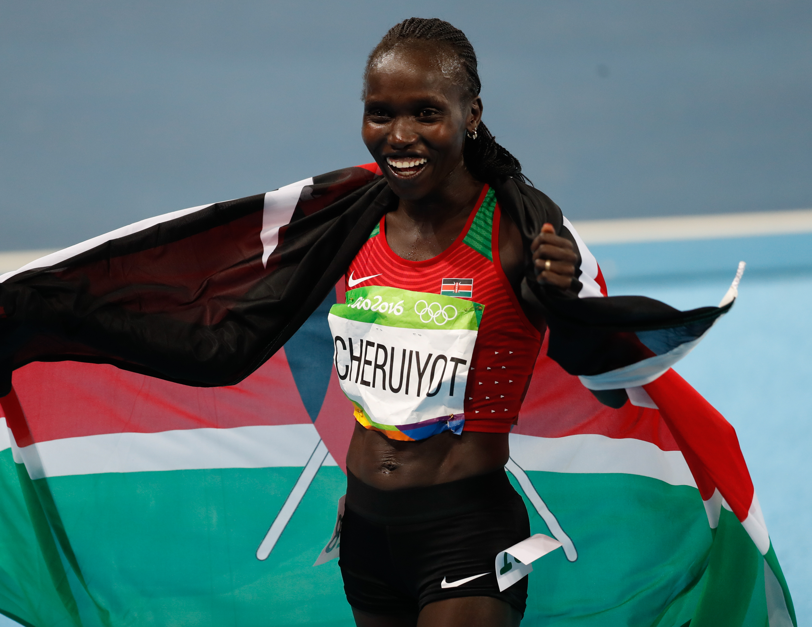 Vivian Cheruiyot Rio 2016